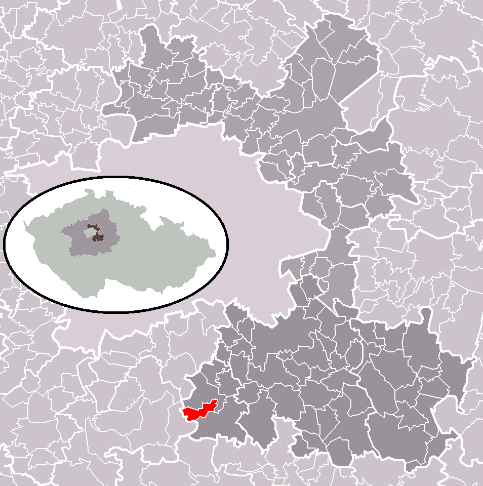 Location of Kostelec u Křížků municipality within Prague-East District and administrative area of Říčany as a Municipality with Extended Competence.